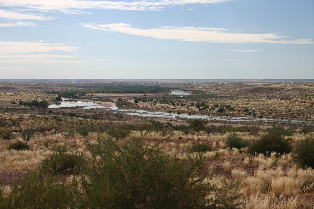 Fish River, near Gibeon